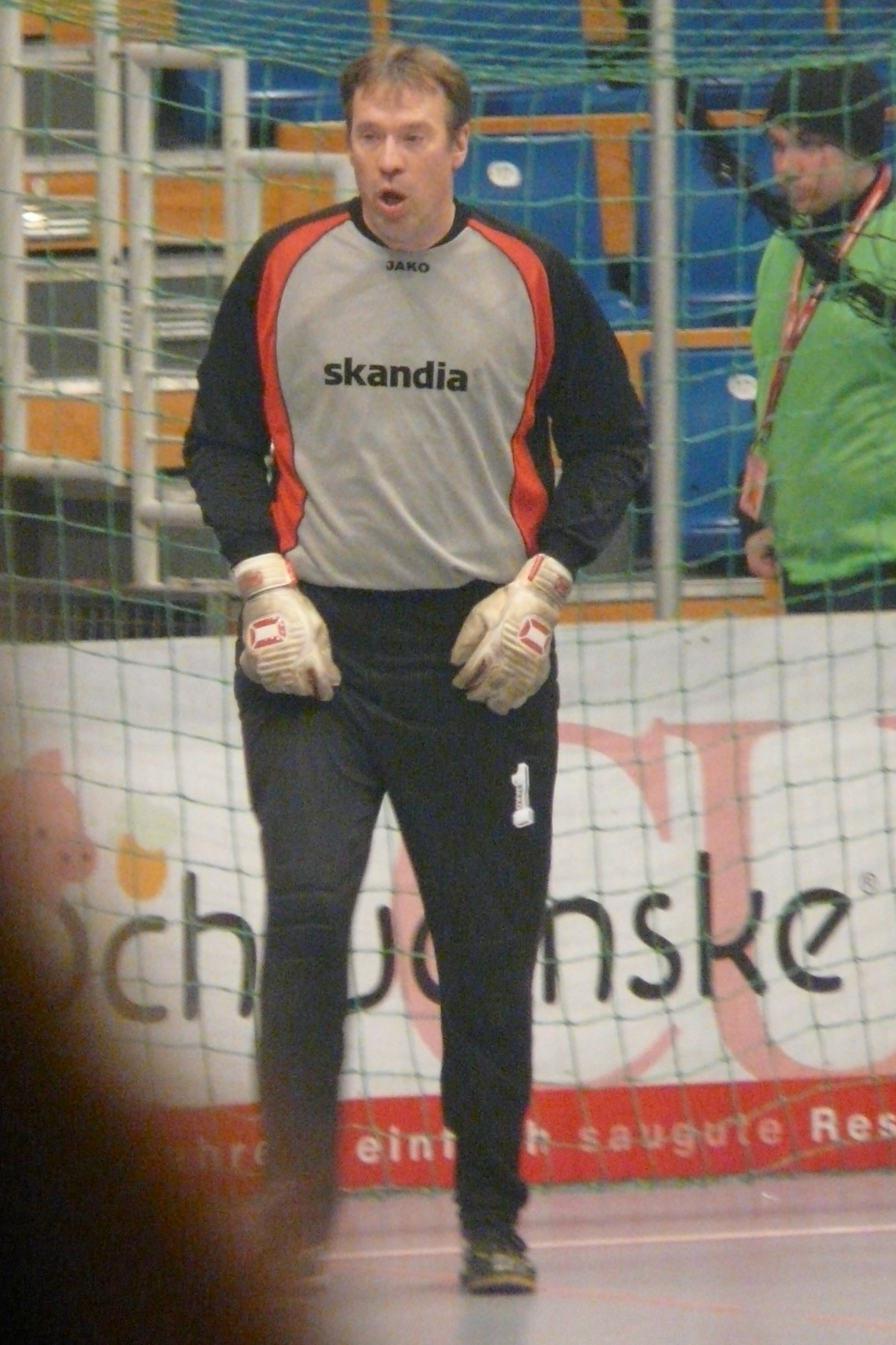 Klaus Thomforde 2010 Formely Goalkeeper of FC St. Pauli